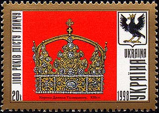 Stamp of Ukraine